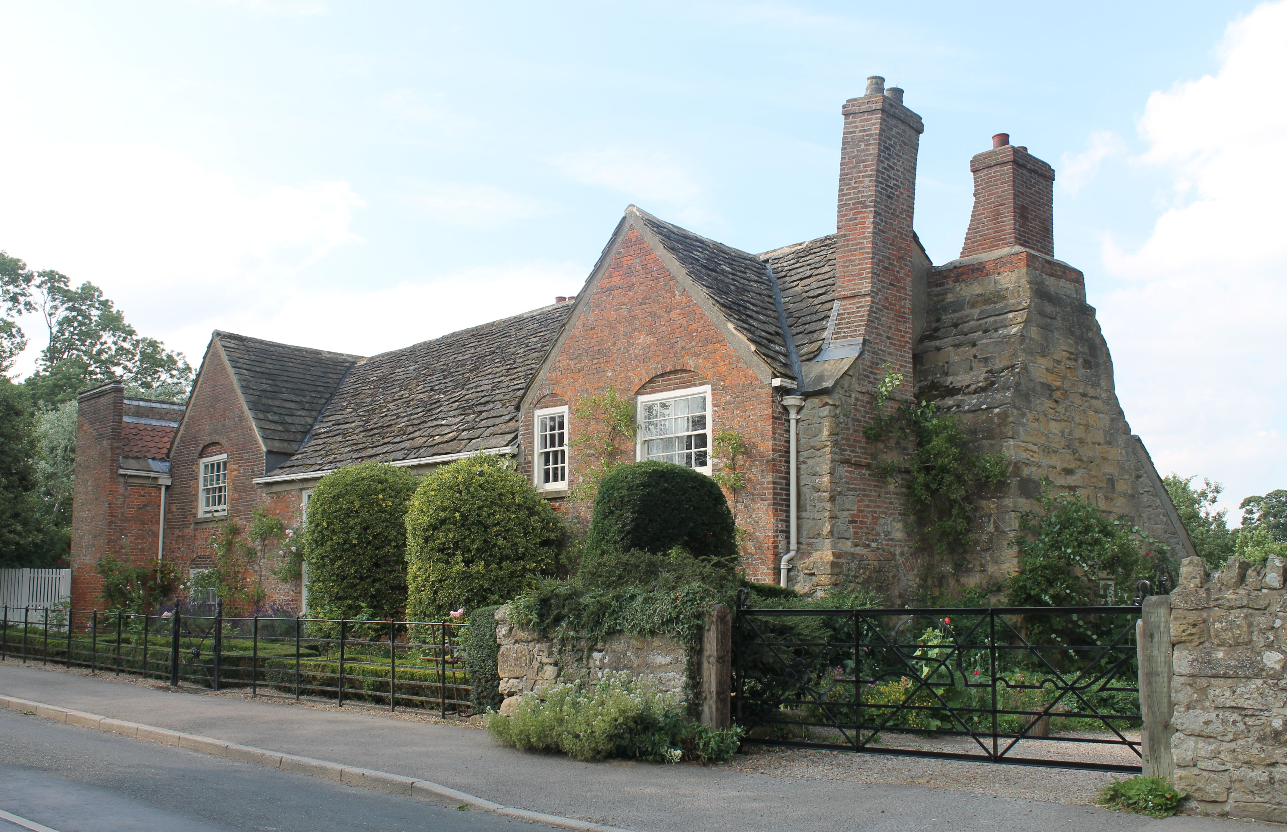 The south entrance to Shandy Hall. The wrought iron gates include a bar in the shape of one of the plot-lines drawn by Laurence Sterne in The Life and Opinions of Tristram Shandy.